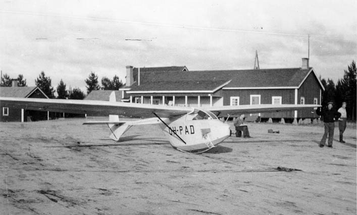 OH-PAD ready for a winch launch at Jämijärvi airfield. Photo from Eino Ritajärvi collection.